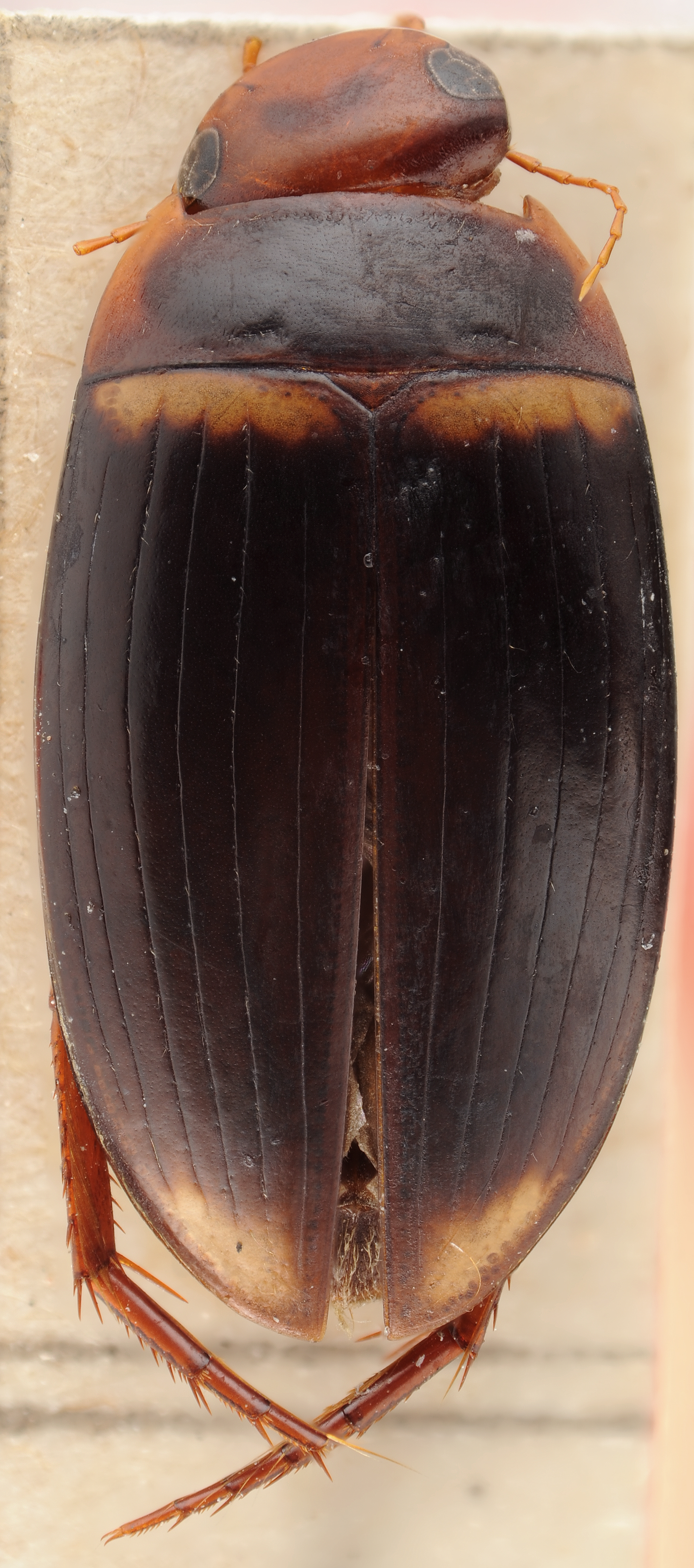 Dorsal habitus of the holotype of Copelatus biroi GUIGNOT, 1956 from Papua New Guinea: Morobe Province: Huon Golf, Simbang (6° 35' 0" South, 147° 50' 0" East), Biro leg., 1898 (HNHM).